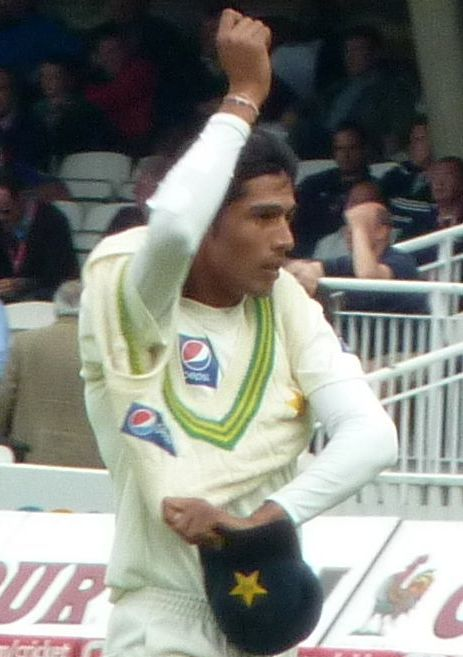 Mohammad Amir pulling on his jumper in the outfield. Taken during Pakistan's third Test against England in August 2010.